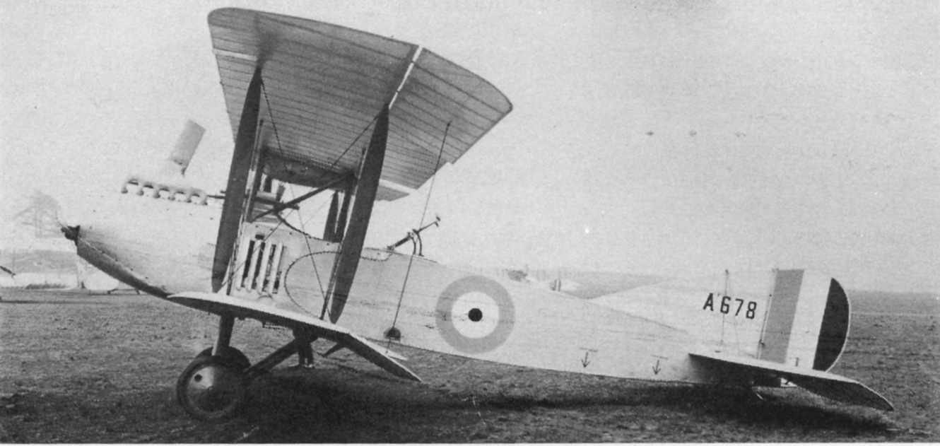 Production Vickers F.B.14 at Farnborough 1917-2-23